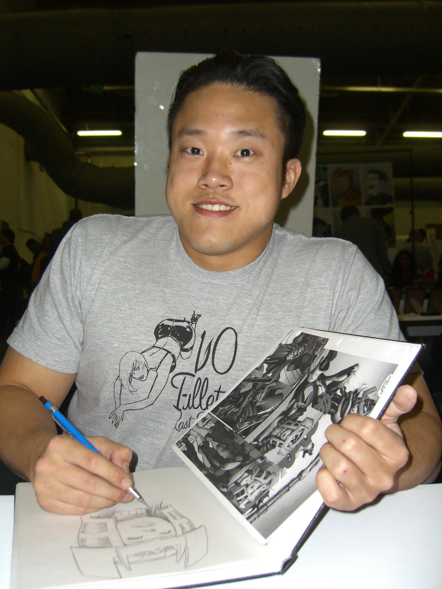 Comic book creator Mike Choi at the Big Apple Convention in Manhattan. Photographed by Luigi Novi. This photo may only be used if the photographer is properly credited. (See Licensing information below.)